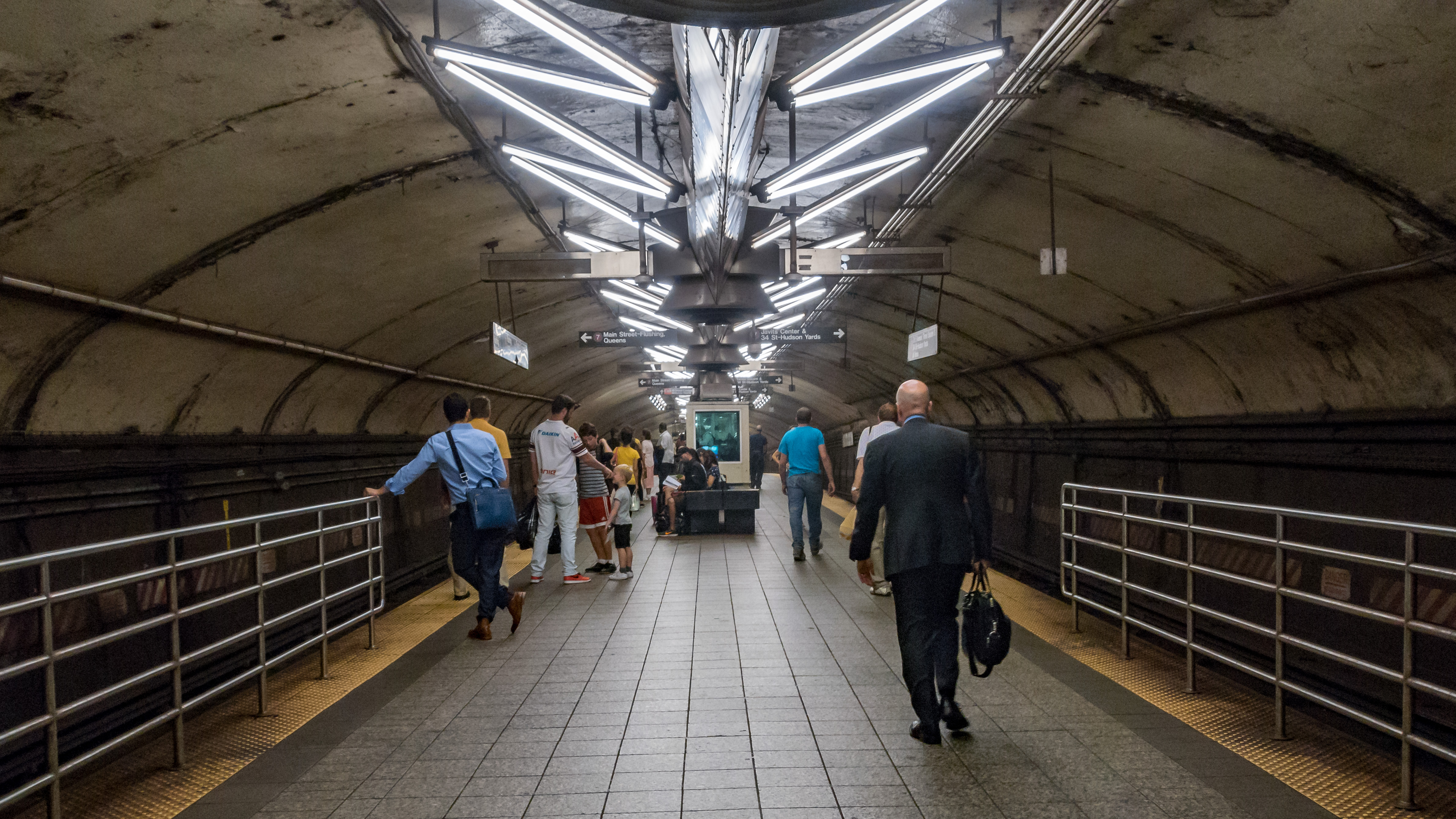 Salesforce Training NYC